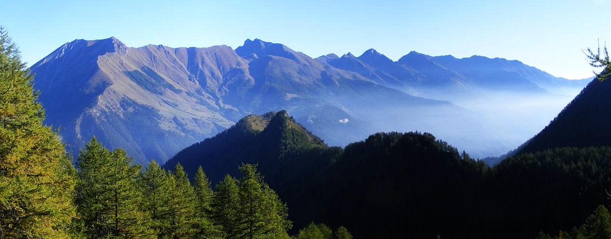 Orsiera mountain group from Albergian's valley (TO, Italy; Cottian Alps)